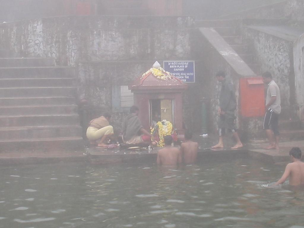 Talakaveri, source of the Kaveri river.